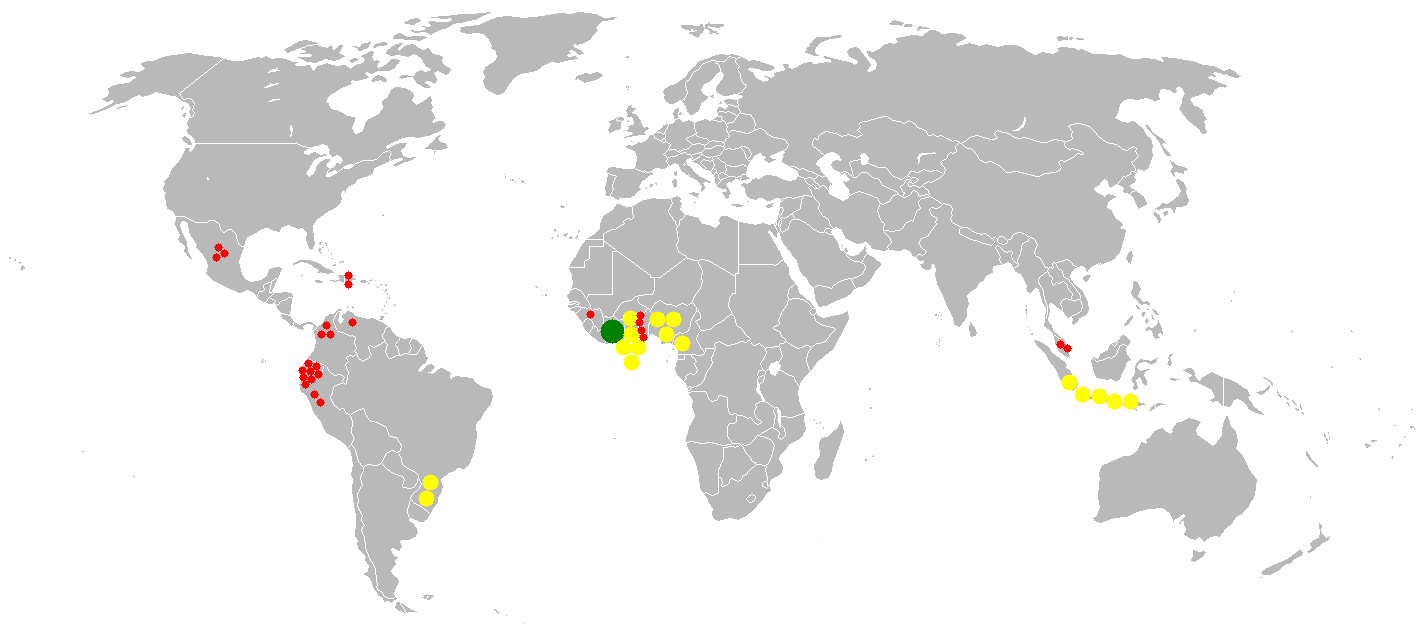 This bubble map shows the global distribution of cocoa bean output in 2005 as a percentage of the top producer (Côte d'Ivoire - 1,286,330 tonnes). Legend: Cocoa output in 2005 shown as a percentage of the top producer (Cote d'Ivoire - 1,286,330 tonnes) Notes on the technical realization and data source of the map